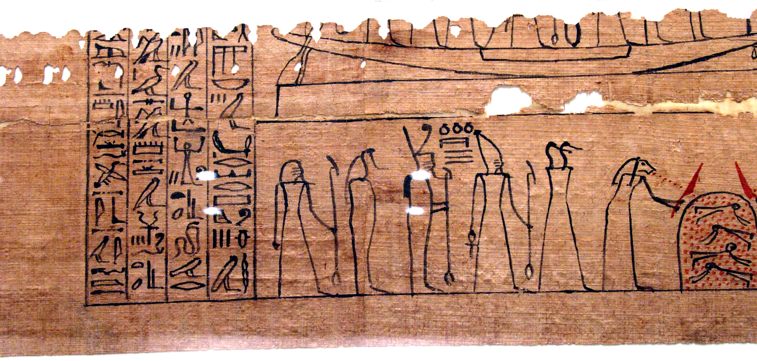 Papyrus fragment, Amduat